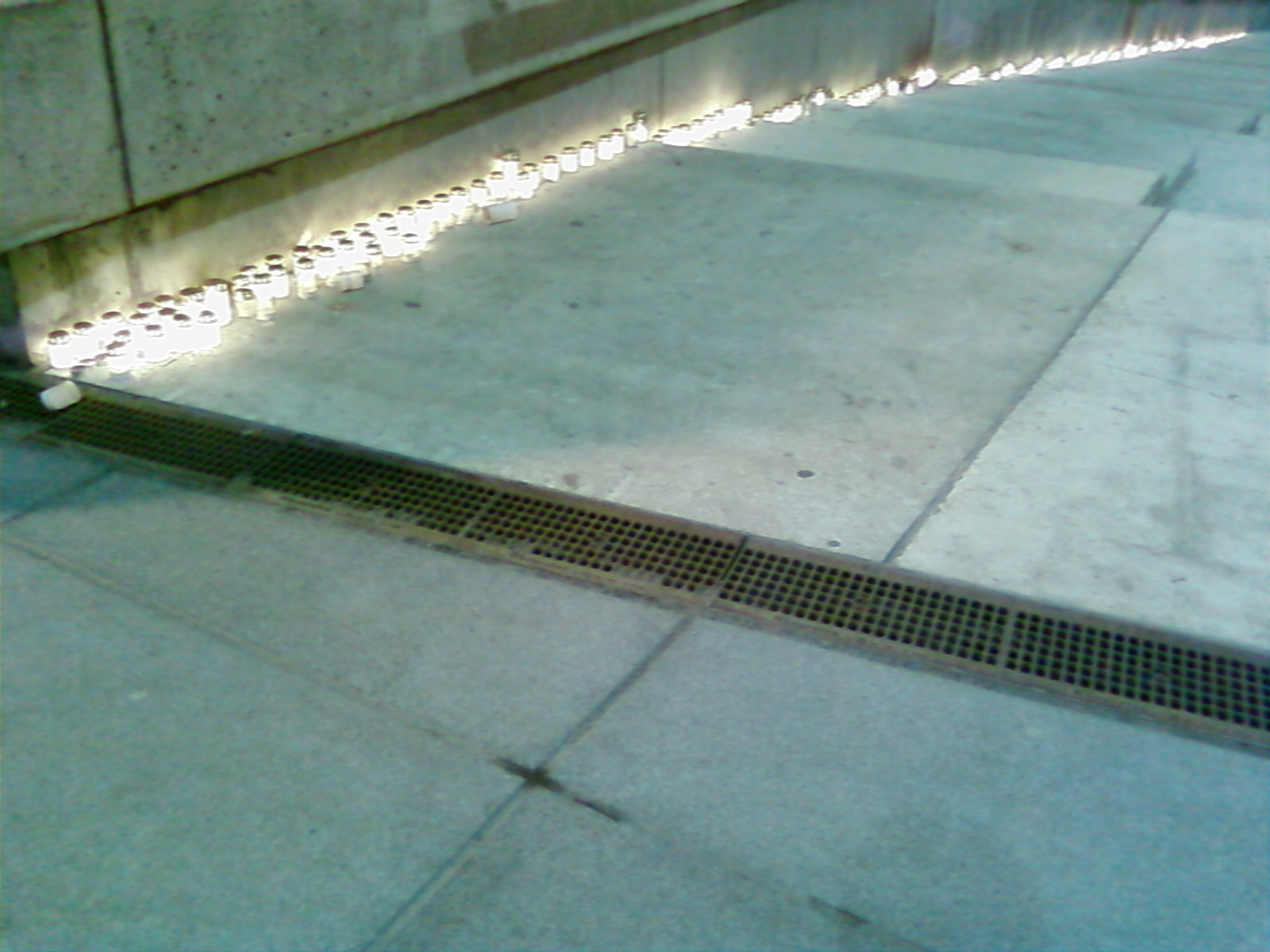 Grave candles to commemorate the 65th anniversary of March deportations (1949) on the stairs of the Freedom square in Tallinn, Estonia. The candles were at first placed on the square proper, but the wind was too strong that day and evening, and people placed some of the candles beside the wall adjoining the stairs.